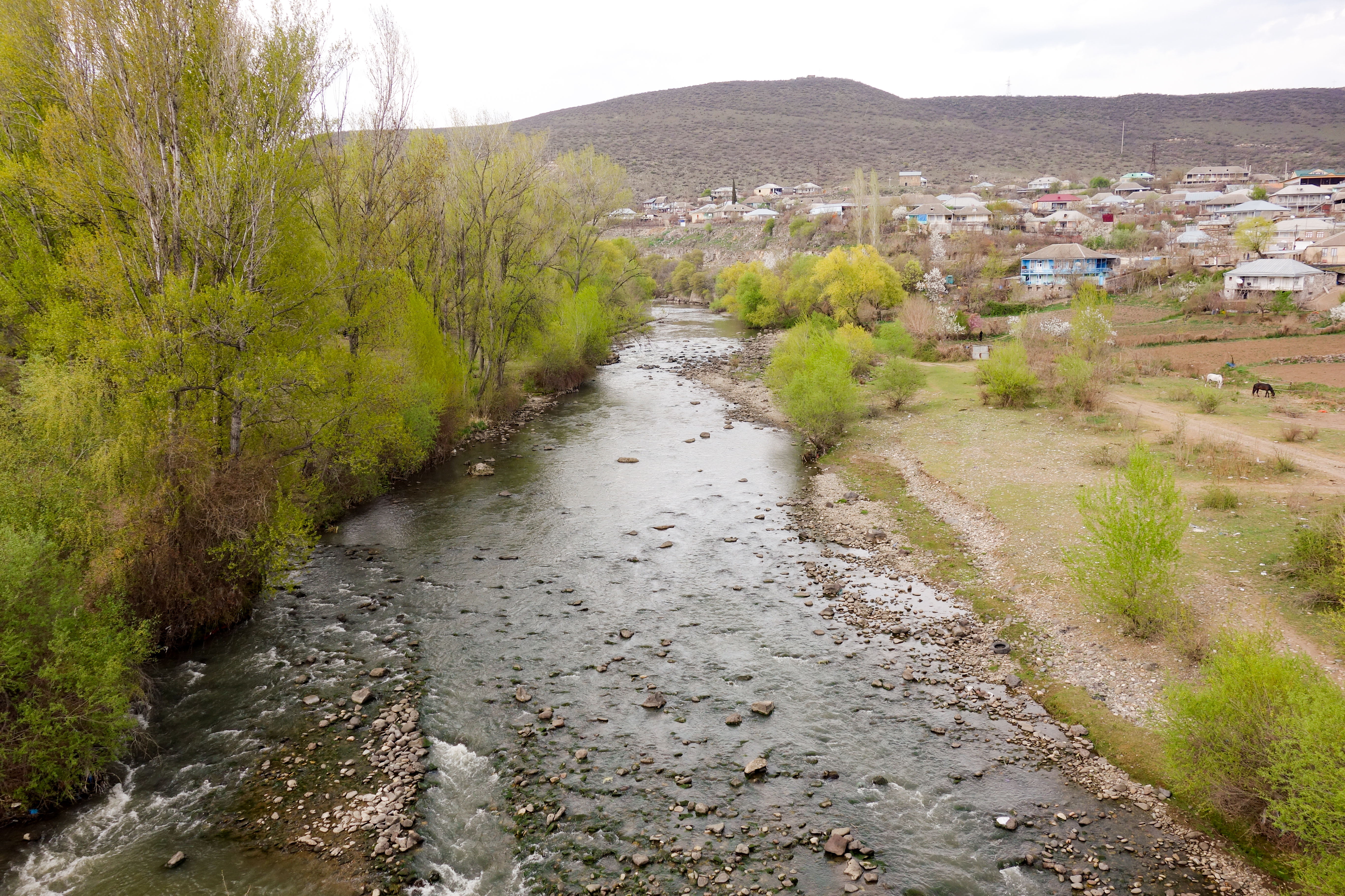 River Khrami (Ktsia) flowing by the village of Tsurtavi, Kvemo Kartli, Georgia